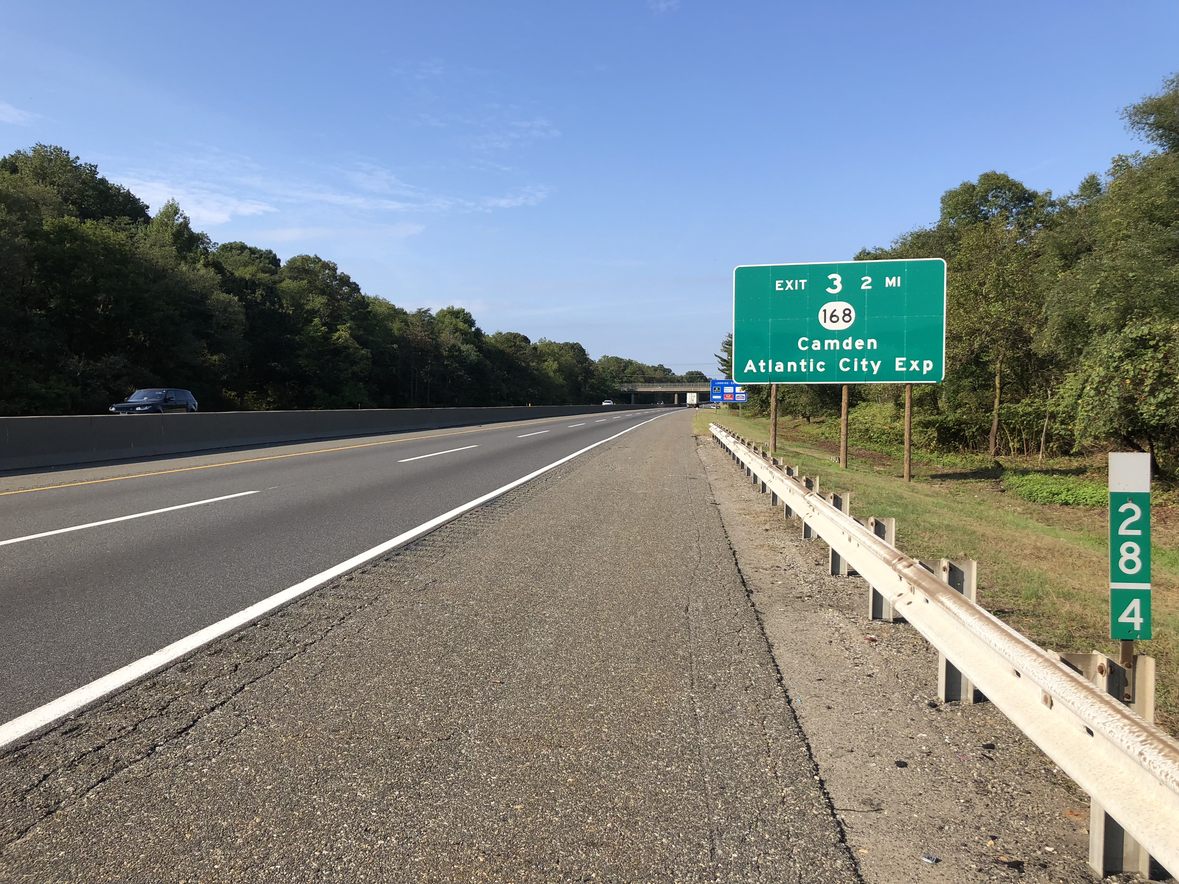 View south along New Jersey State Route 700 (New Jersey Turnpike) north of Exit 3 (New Jersey Route 168, Camden, Atlantic City Expressway) in Lawnside, Camden County, New Jersey